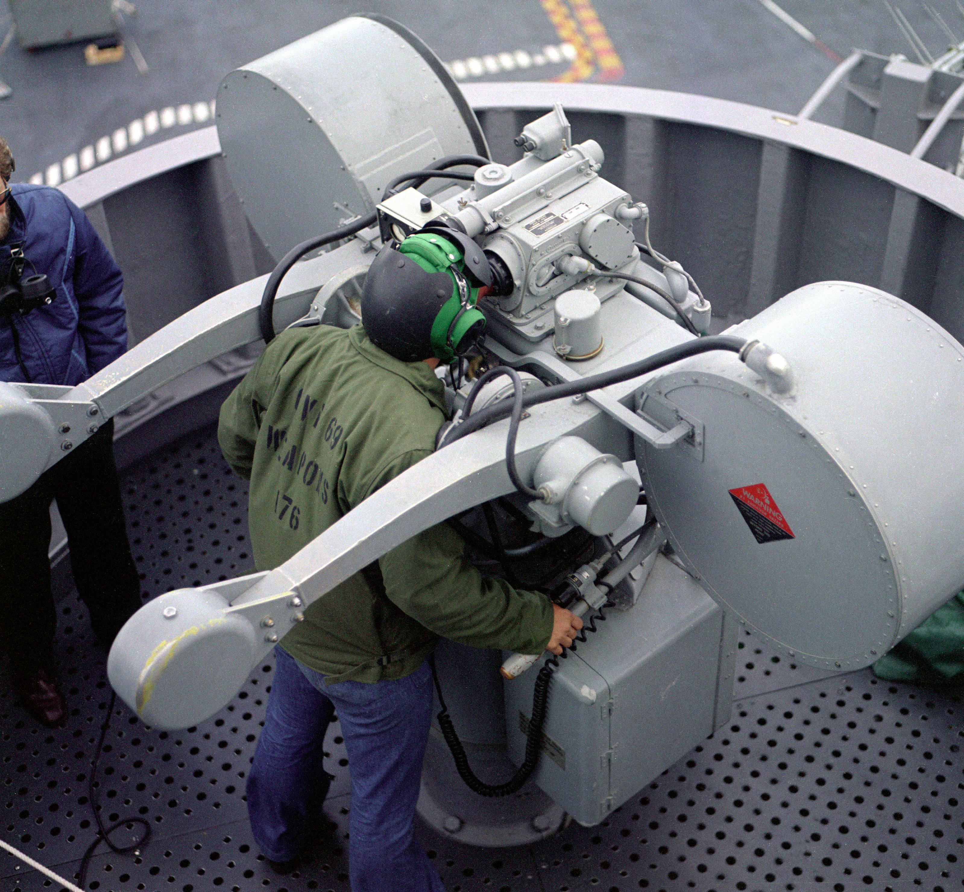 A gunner's mate mans the Mark 115 SEA SPARROW fire control system director during a RIM-7 SEA SPARROW missile firing exercise aboard the nuclear-powered aircraft carrier USS DWIGHT D. EISENHOWER (CVN-69).